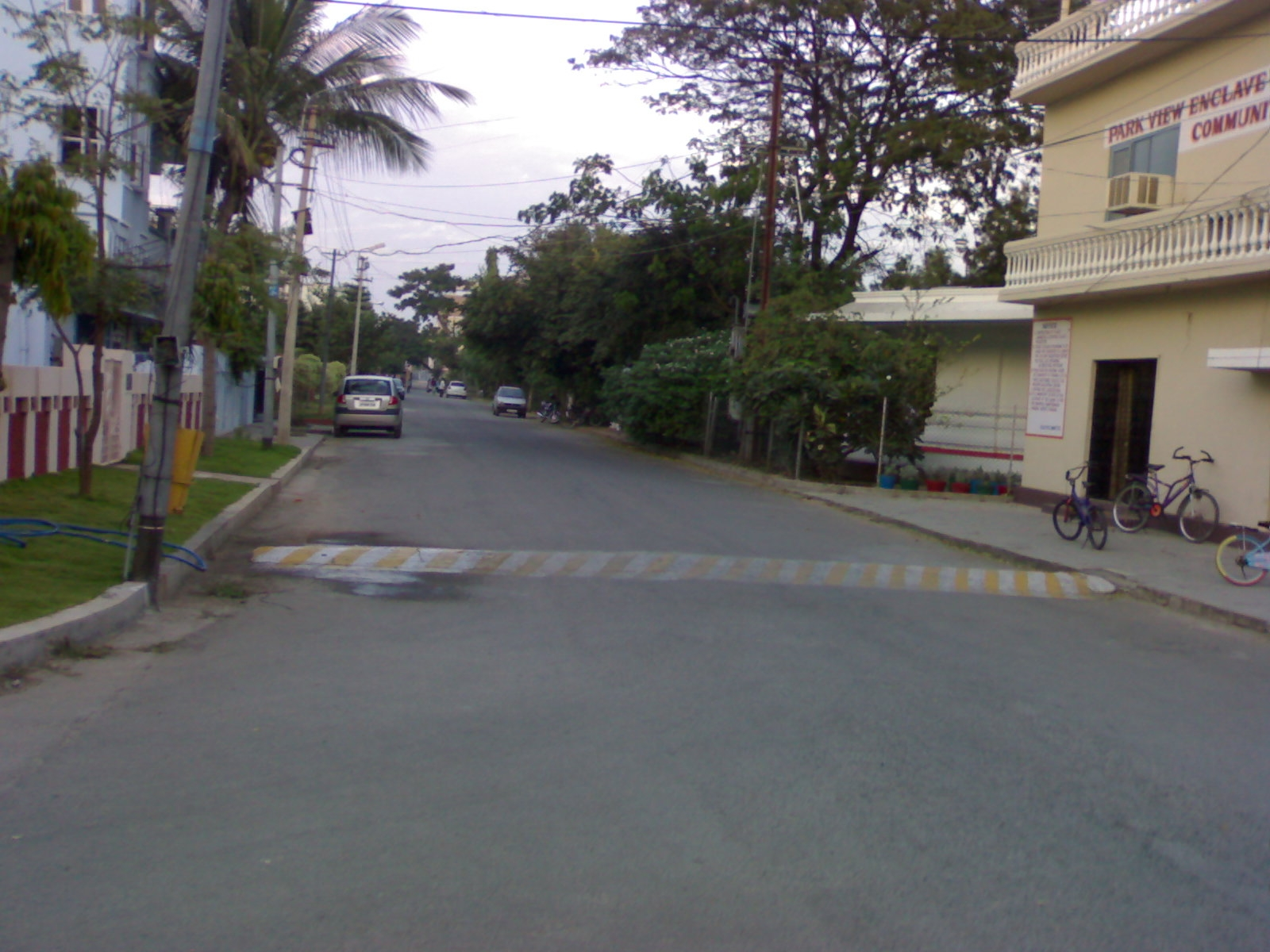 Park view main road. Park View Enclave, Bowenpally, Secunderabad, India